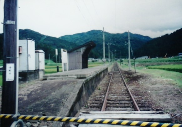 Keifuku Ichinono Station whole view 2001 August